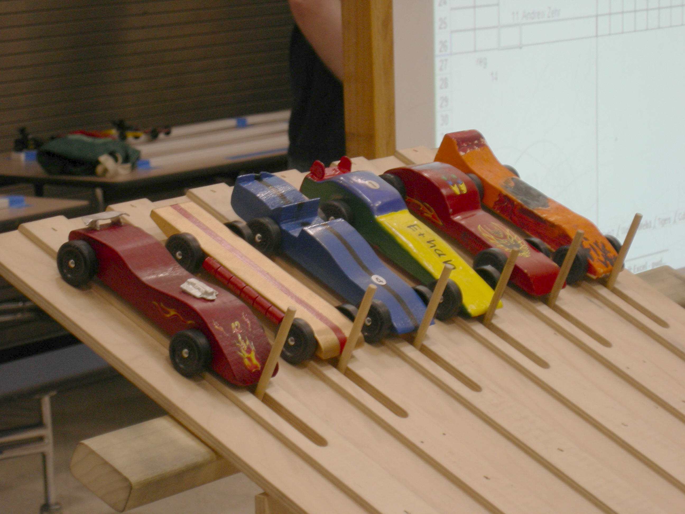 Pinewood derby cars; Bryant School, Seattle, Washington.